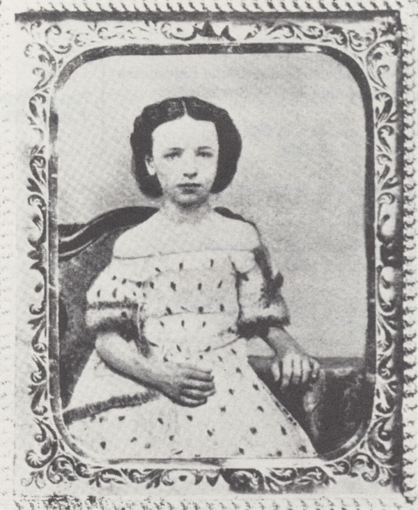 Emma Albani, as a child